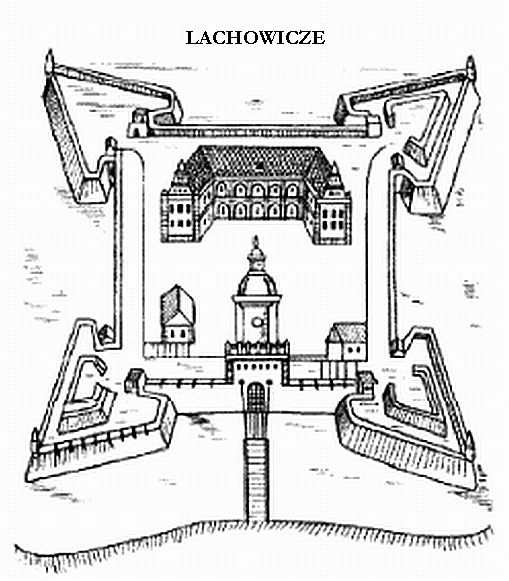 Lachowicze Castle in 17 century